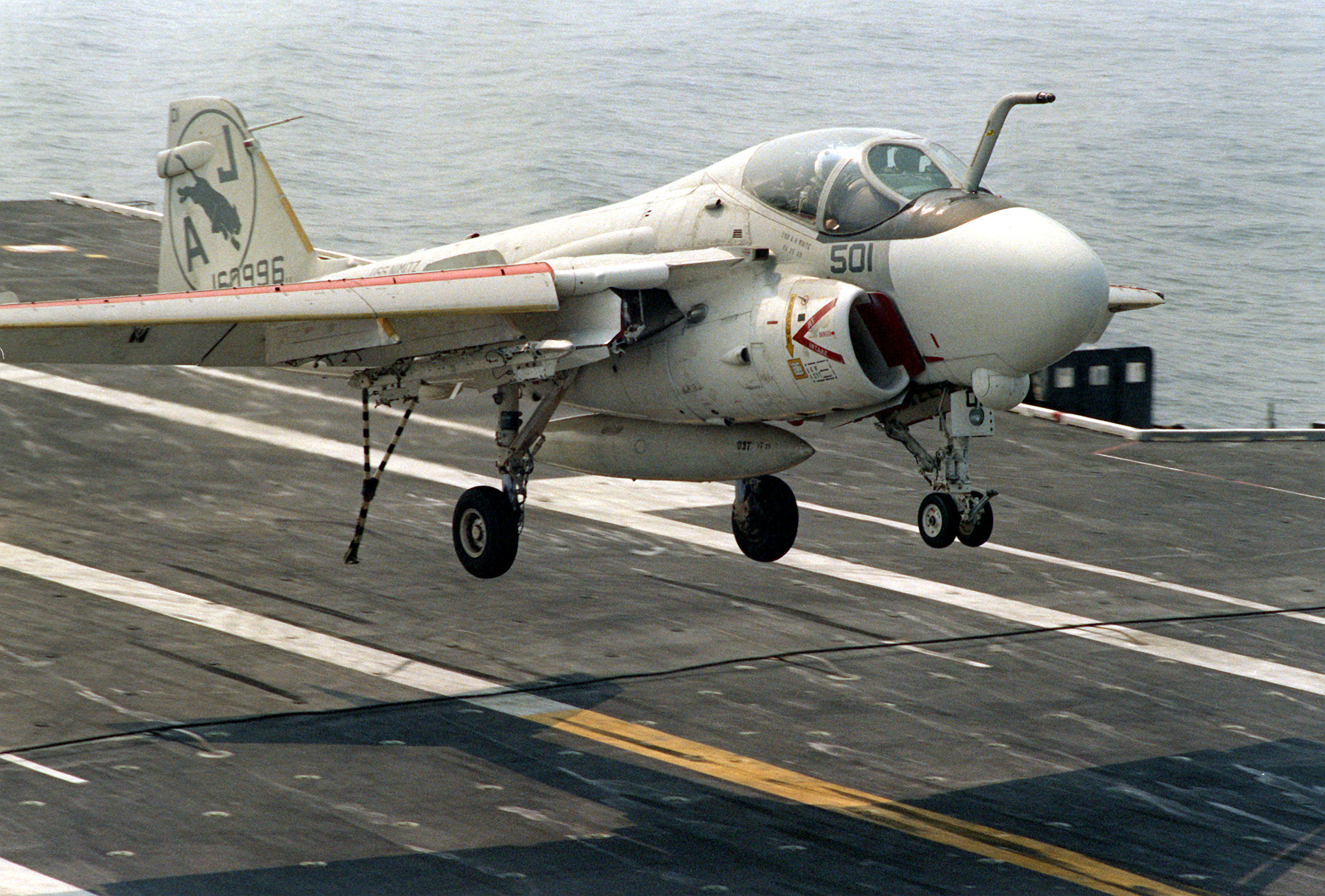 A U.S. Navy Grumman A-6E Intruder (BuNo 160996) from Attack Squadron 35 (VA-35) Black Panthers approaches the aircraft carrier USS Nimitz (CVN-68) for a landing on 27 June 1981. VA-35 was assigned to Carrier Air Wing 8 (CVW-8) aboard the Nimitz for a deployment to the Mediterranean Sea from 3 August 1981 to 12 February 1982. During that deployment the A-6E 160996 crashed into the sea on 18 November 1981 after the undercarriage collapsed. Both crewmembers ejected safely.